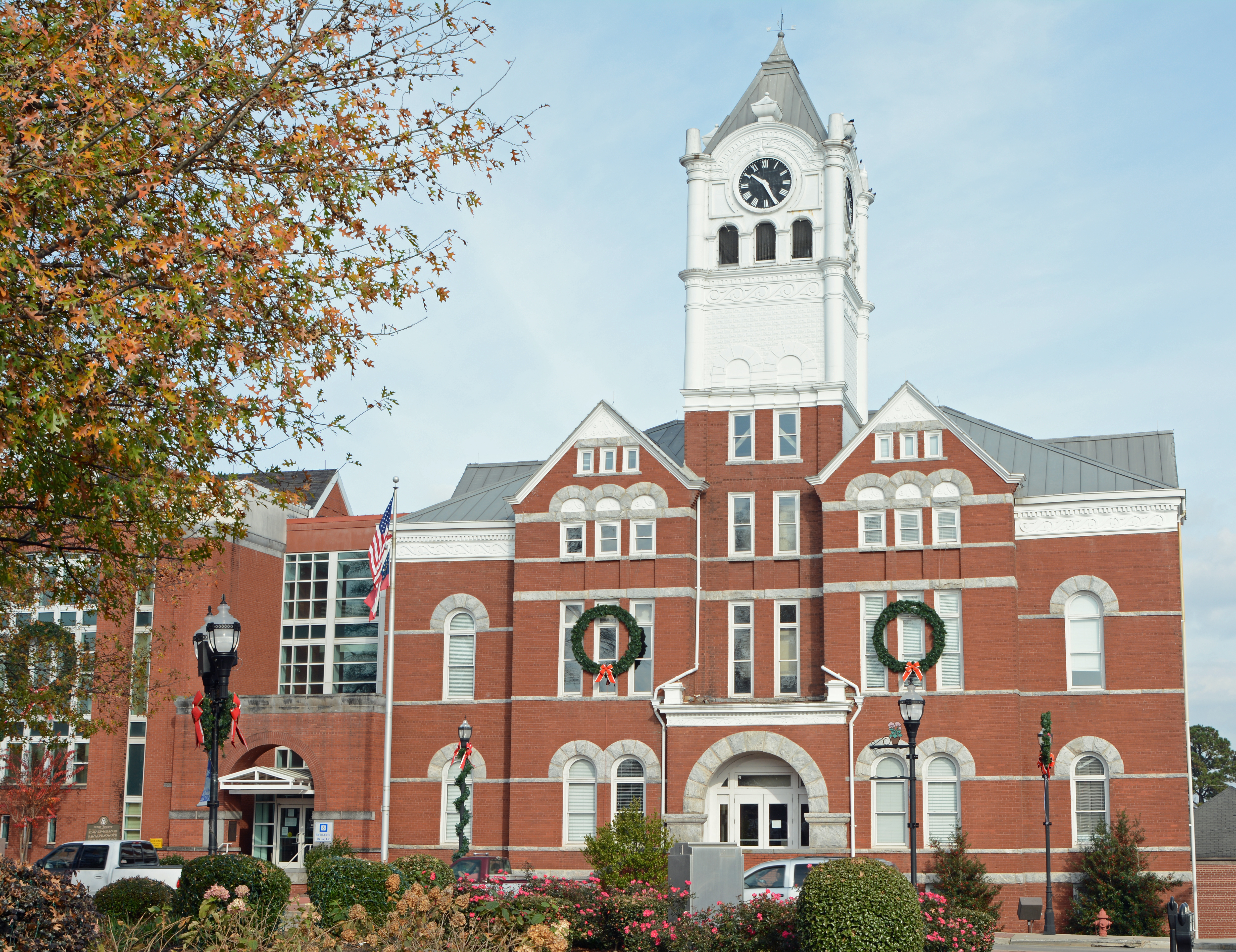 The Henry County Courthouse, McDonough, Georgia, US, on the National Register ofHistoric Places